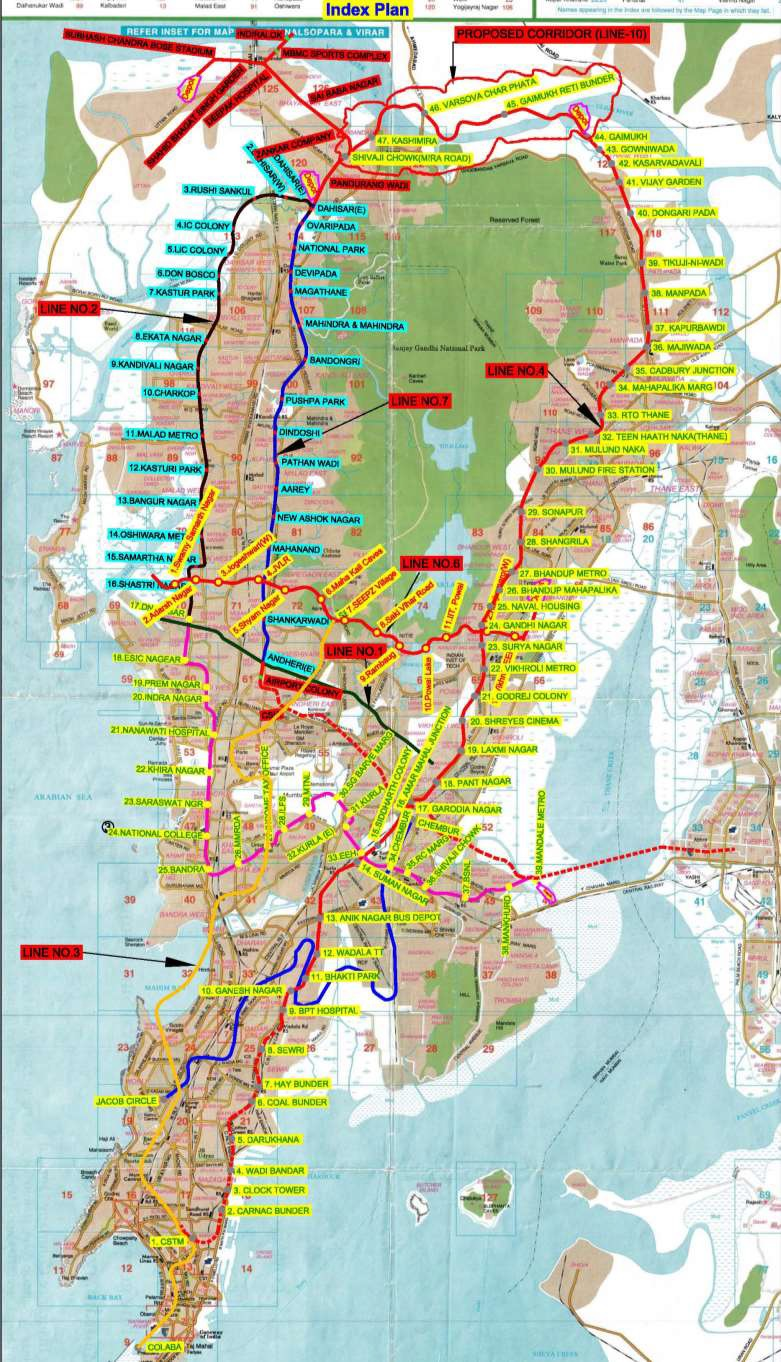 Metro line 10 map whole